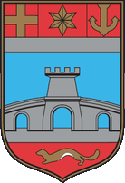 Coat of arms of Osijek-Baranja County